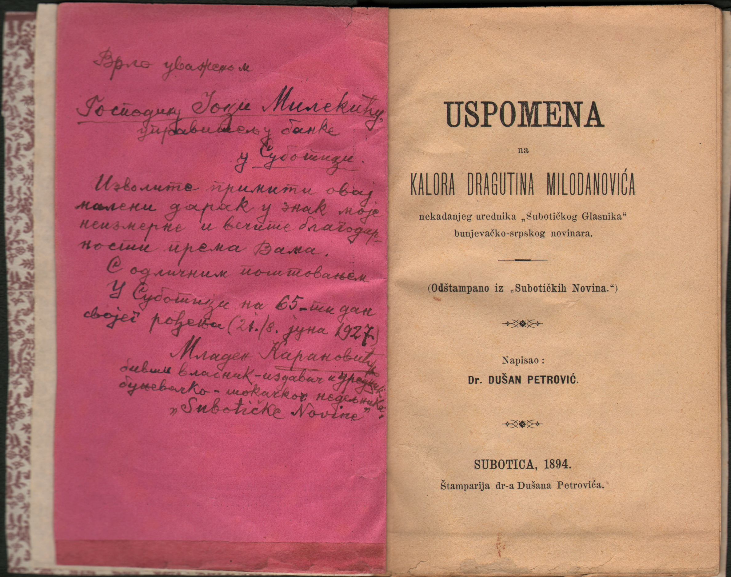 Dušan Petrović, Uspomena na Kalora Dragutina Milodanovića, Subotica 1894.